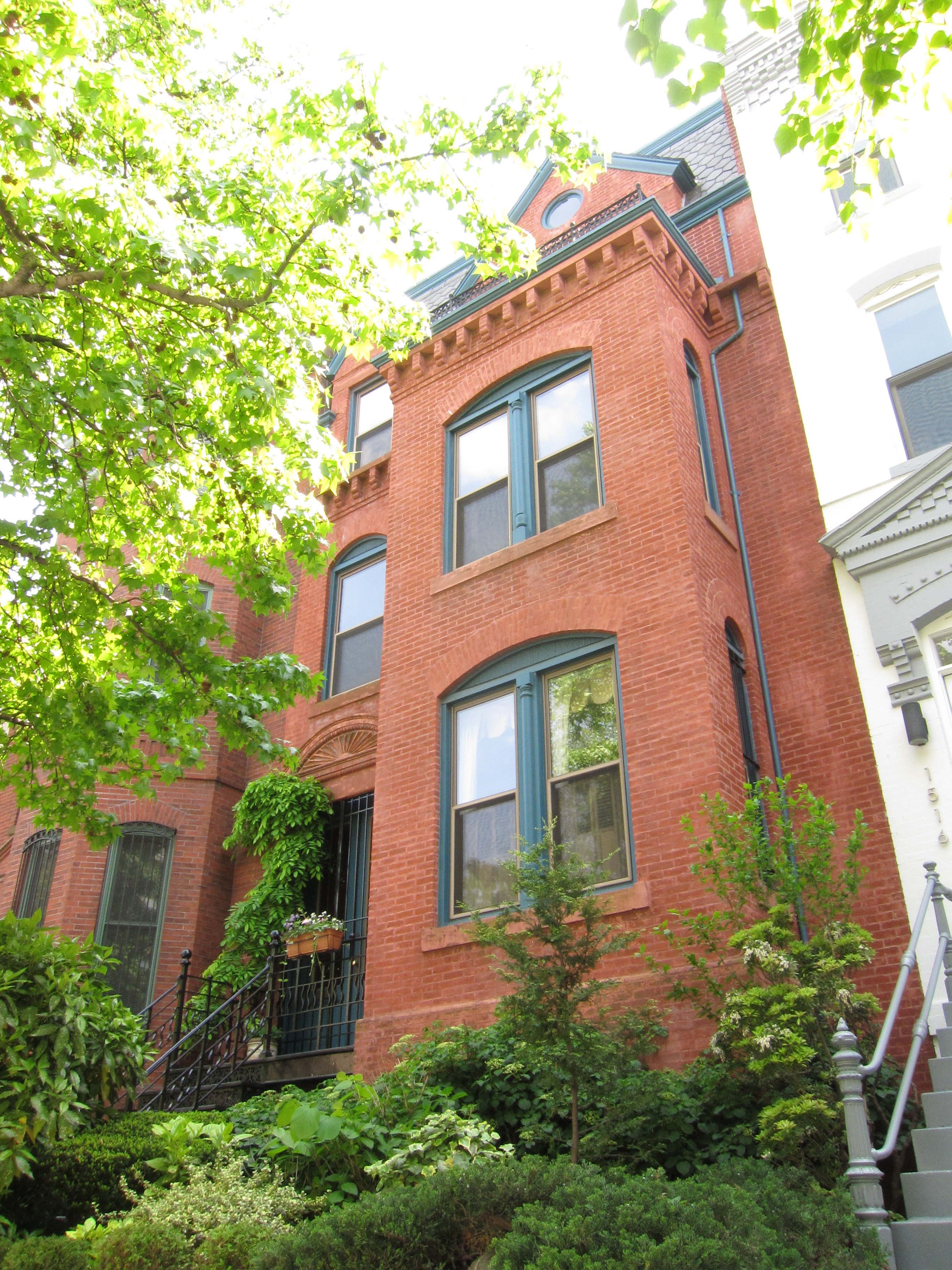 1514 R Street, Northwest is a late 19th-century Victorian row house in the Logan Circle neighborhood of Washington, D.C., United States. It was designed by Albertus R. Duryee and built in 1886 for ice cream mogul Jacob Fussell. 1514 R Street, N.W. was later the residence of Marshall McDonald, United States Commissioner of Fish and Fisheries (1888–1895).